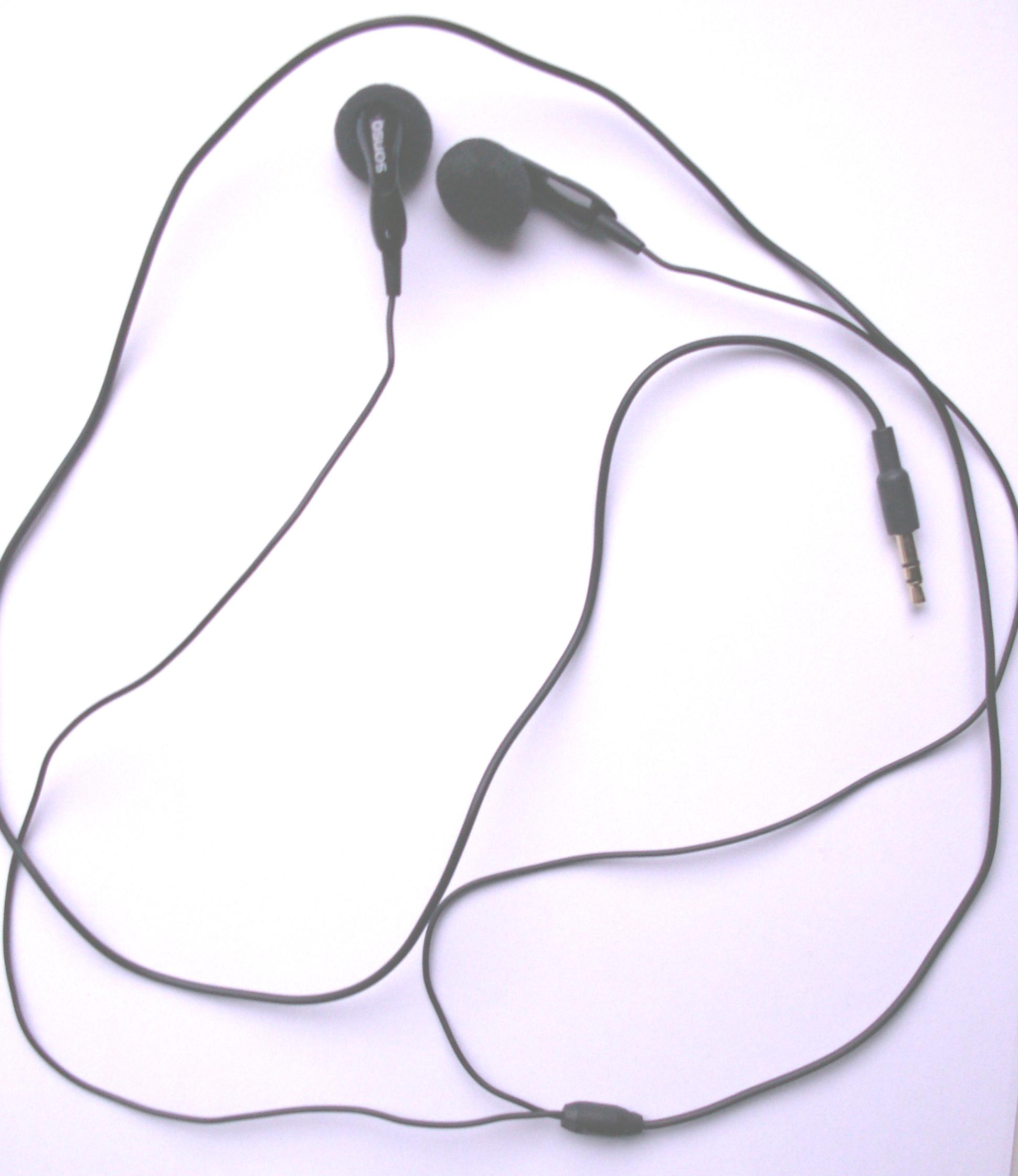 A picture showing out-ear earphones. This particular earphones are the earphones given along with the Sandisk Sansa digital audio player.